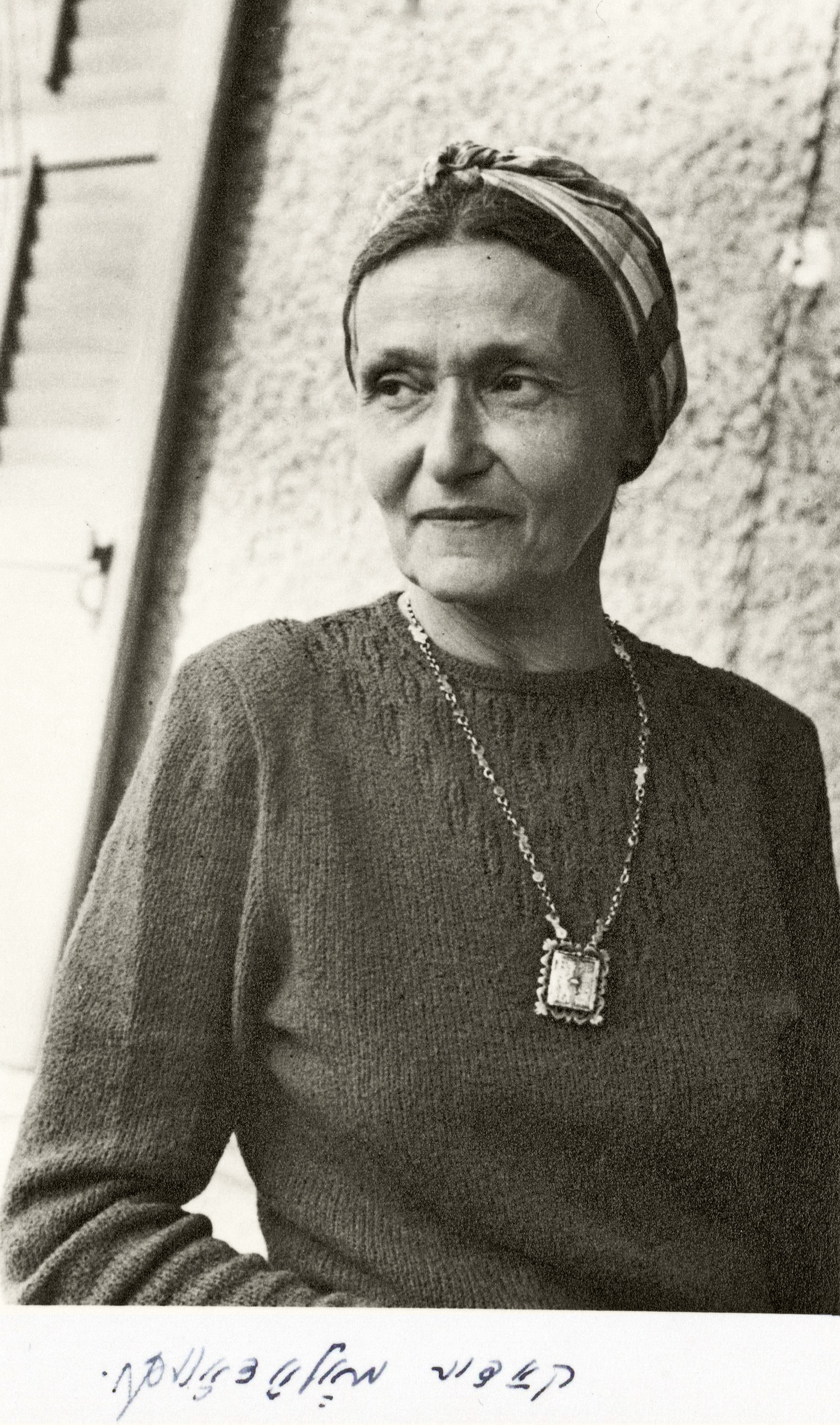 Kadya Molodovsky